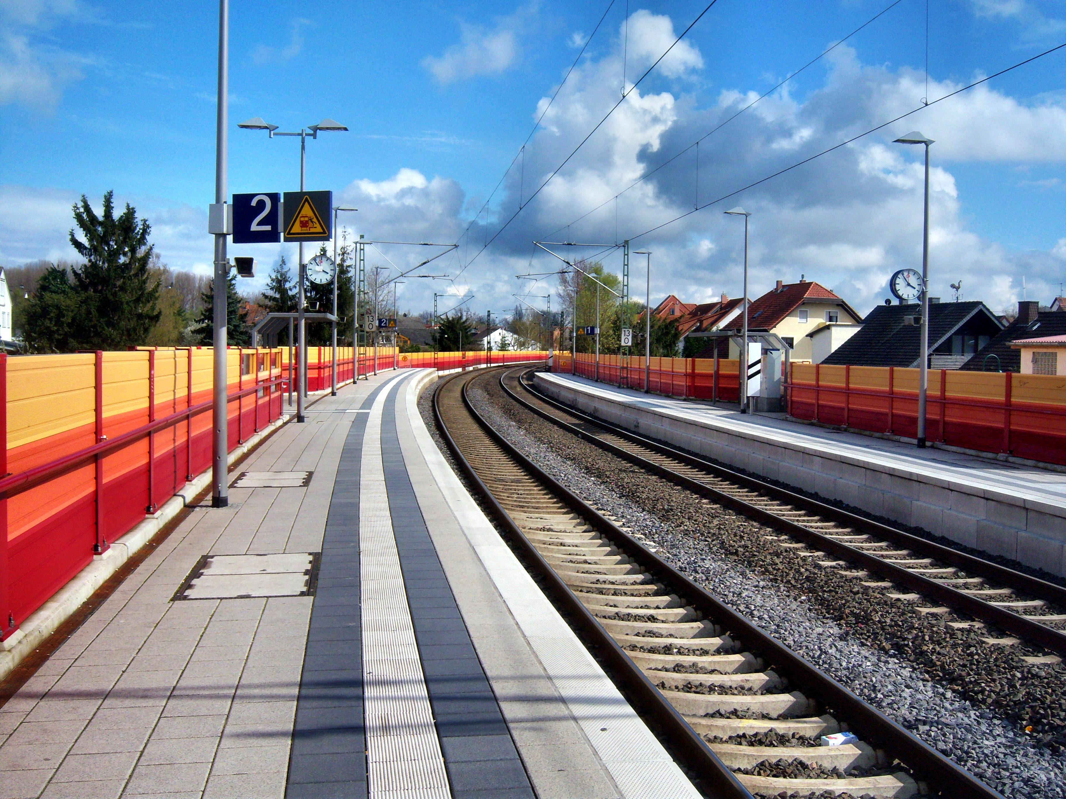 Train Station of Nackenheim (Rhenish Hesse) in Germany